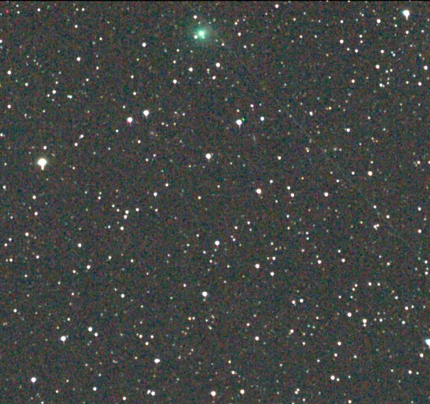 Comet C/2007 E2 (Lovejoy) discovery frame. Comet is the green fuzzy object at center top.